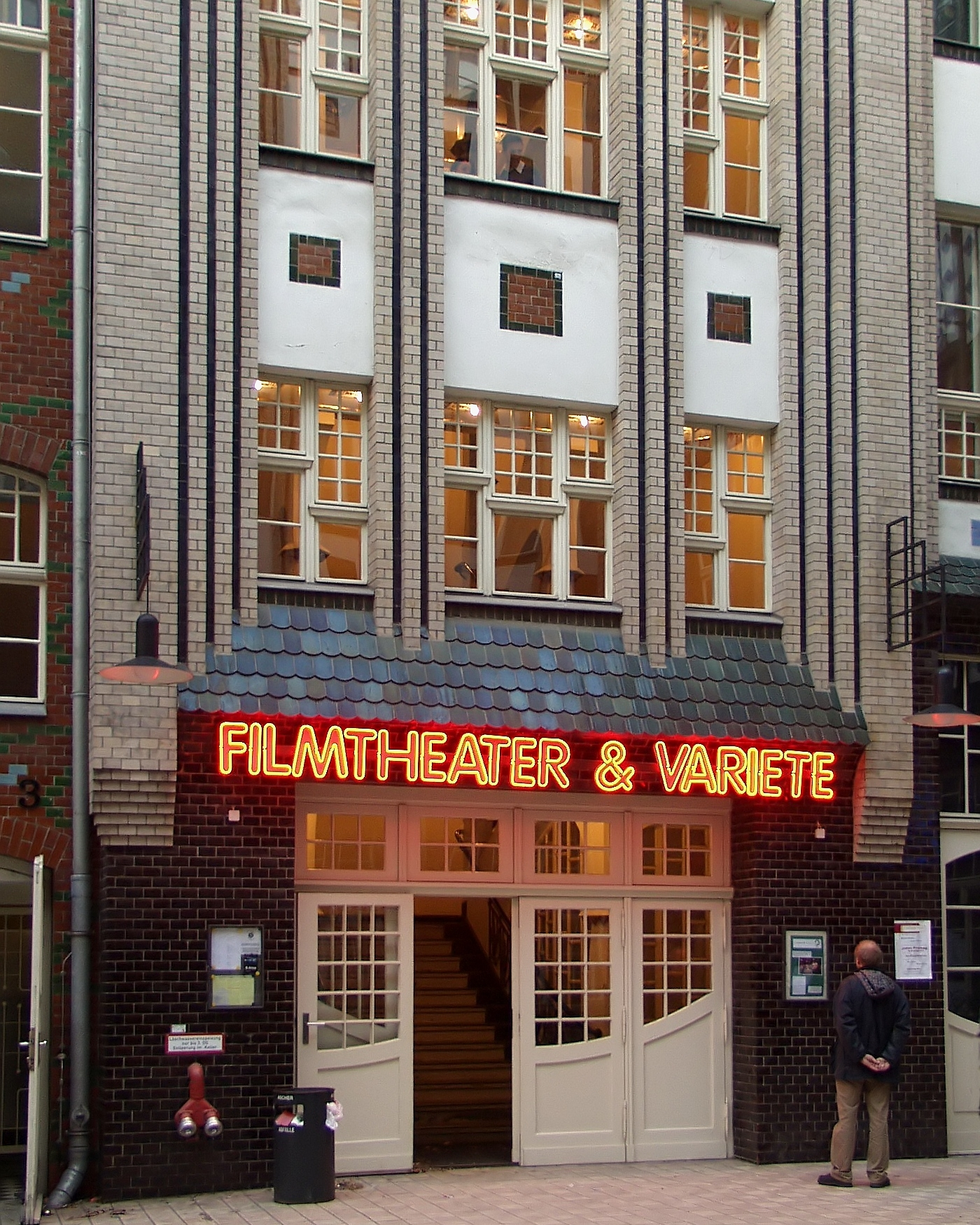 Hackesche Höfe at Berlin